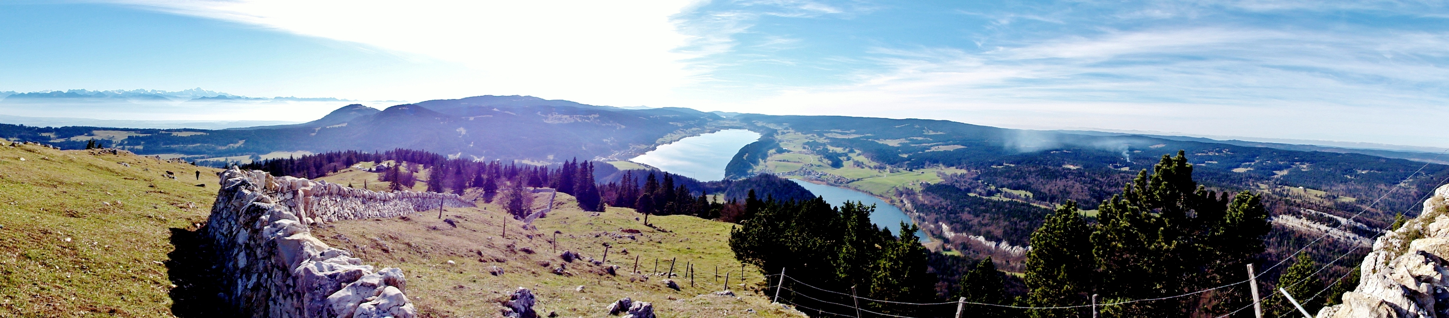 View from Dent de Vaulion a mountain peak of the Swiss Jura (summit 1482,6 m) overlooking the Mont Blanc massif (left side picture) the lakes of Joux and Brenet in the canton of Vaud.